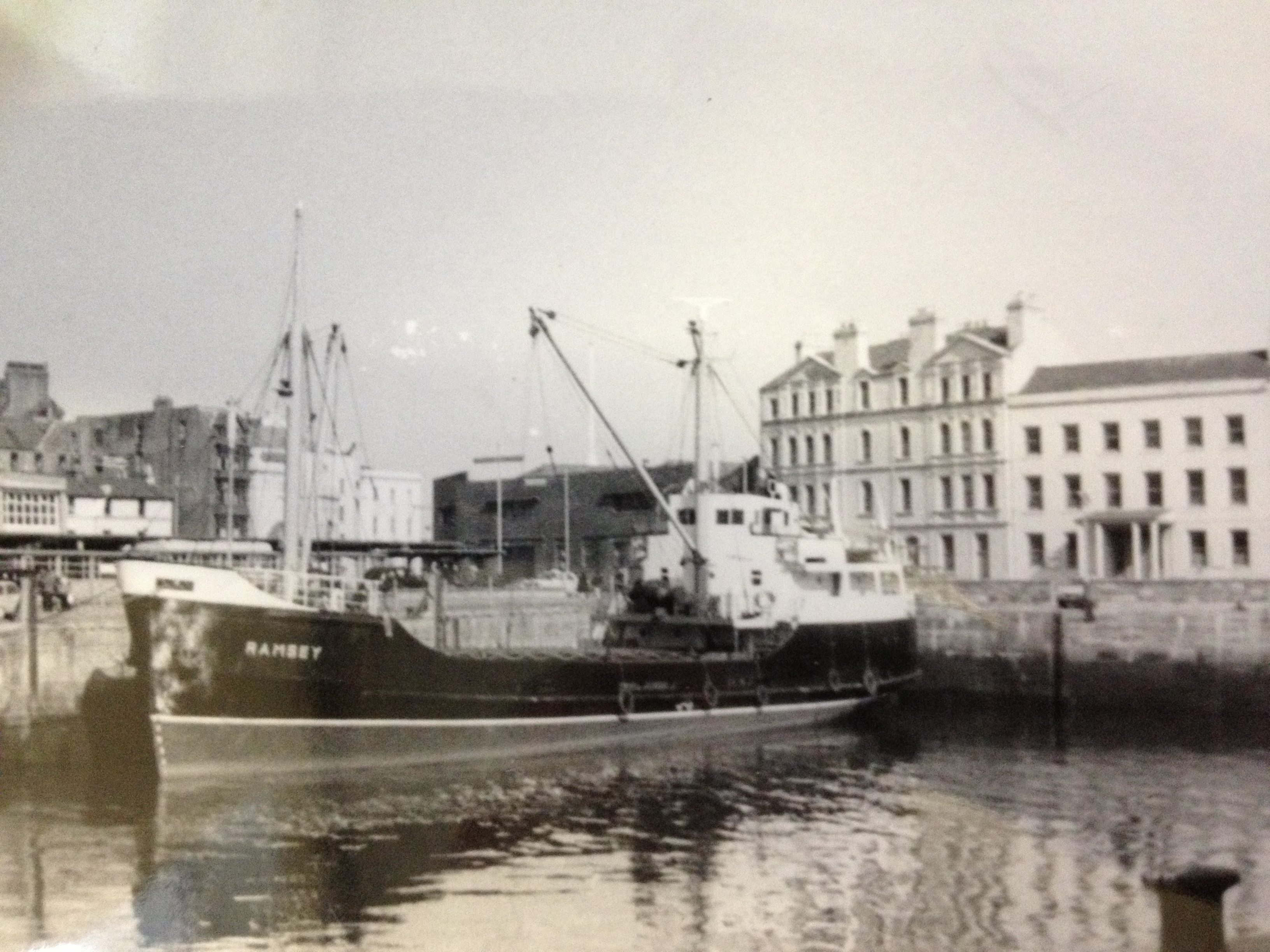 The Isle of Man Steam Packet Company cargo vessel Ramsey pictured at the Coffee Palace berth, Douglas.